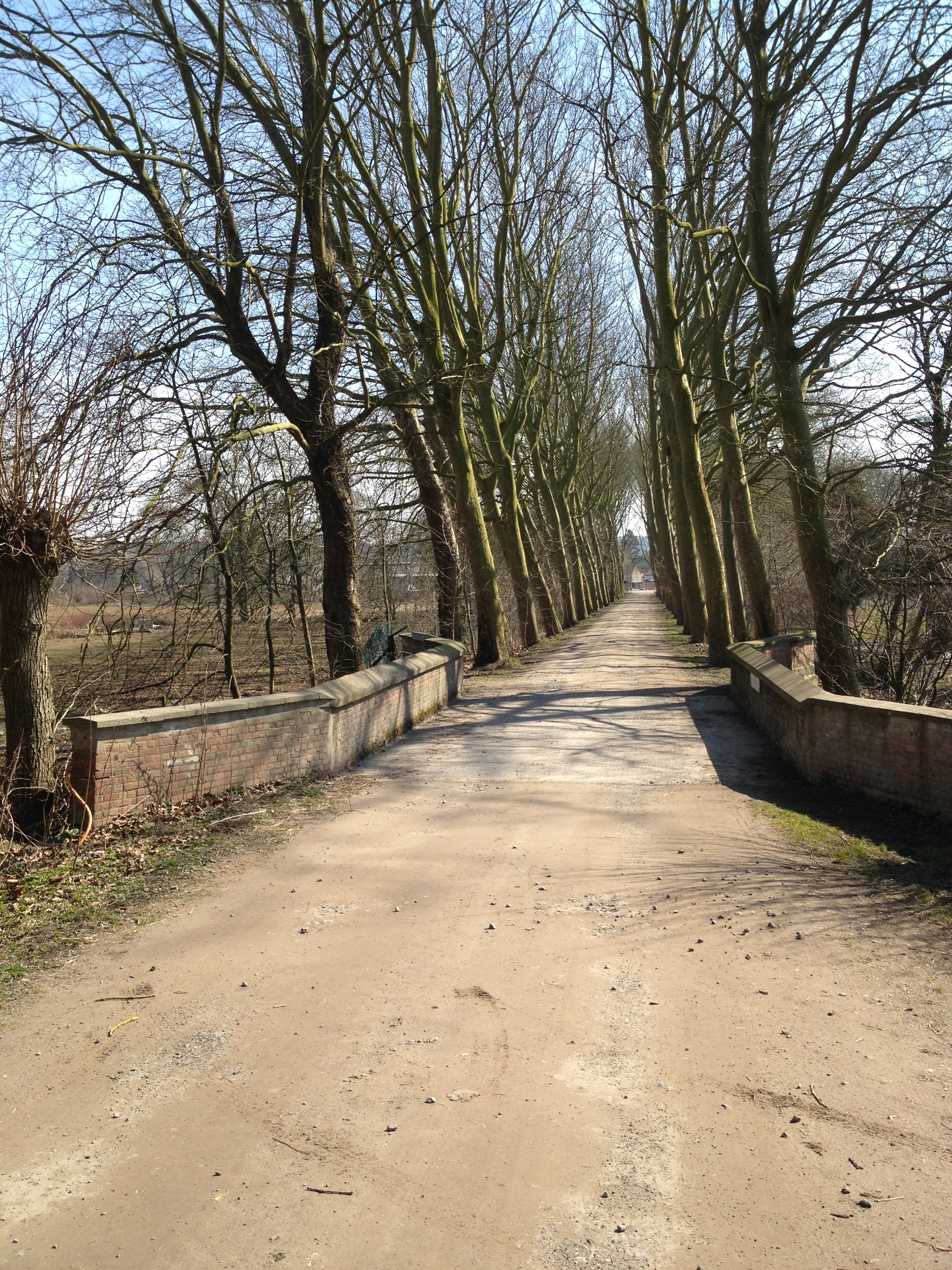 Bridge over the Dyle River at Gastuche, Belgium where Second Lieutenant Richard Annan on the bridge won the V.C. in May 1940